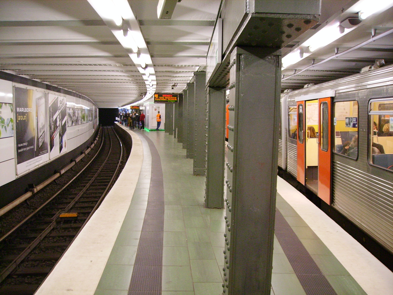 Platform of the U-Bahn line at Sternschanze station in 2009.